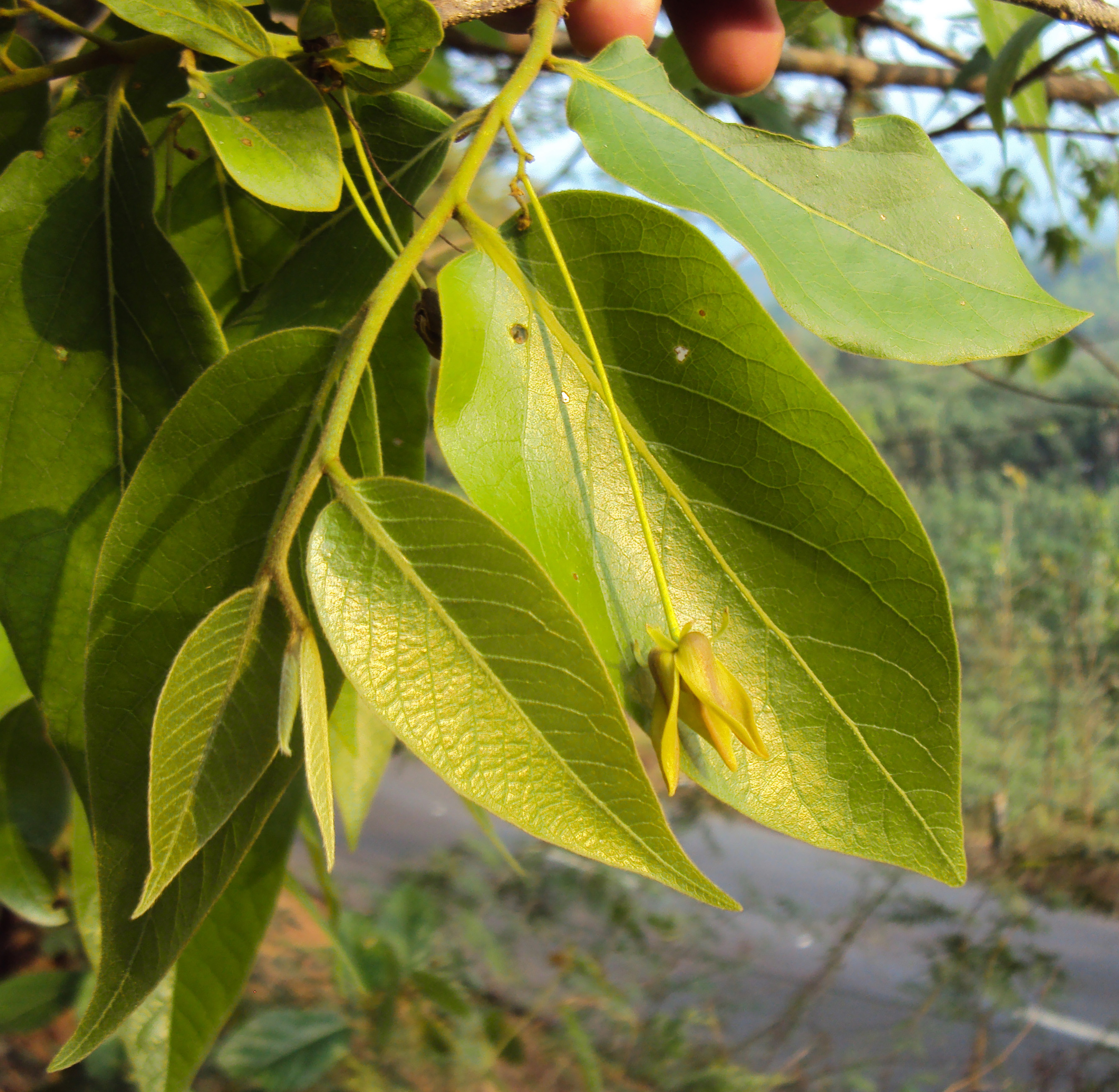 Miliusa tomentosa